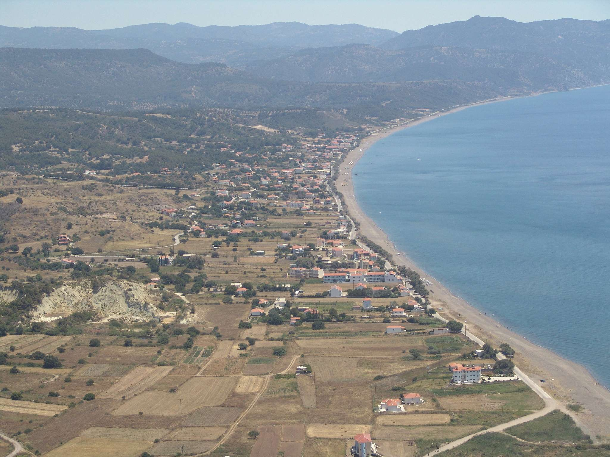 Aerial photo of Vatera beach in 2004 taken by me. Costis STEFANOU